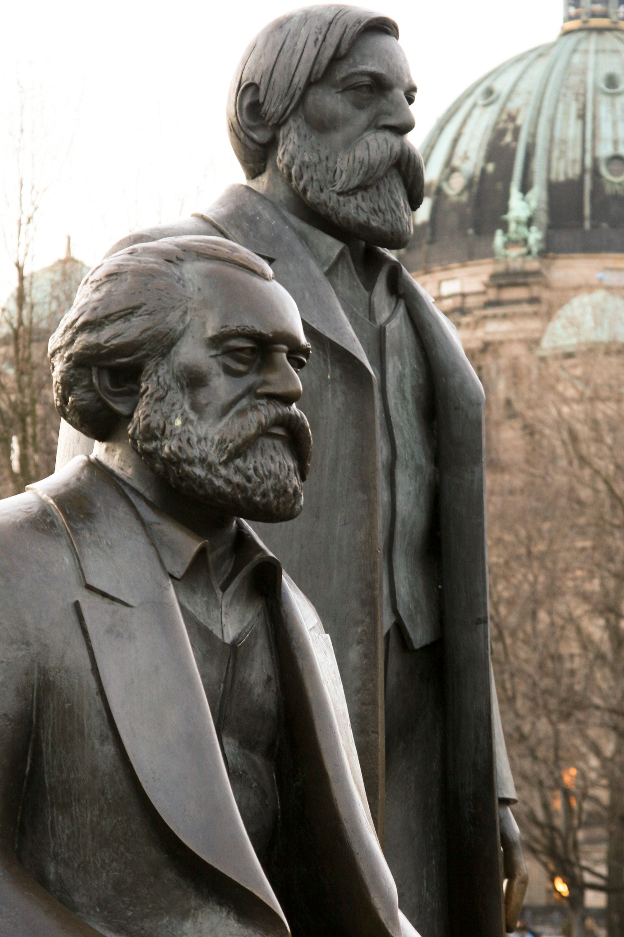 Karl Marx (left) and Friedrich Engels (Bronze memorial by sculptor Ludwig Engelhardt; Completion: 1986; Location: Berlin)